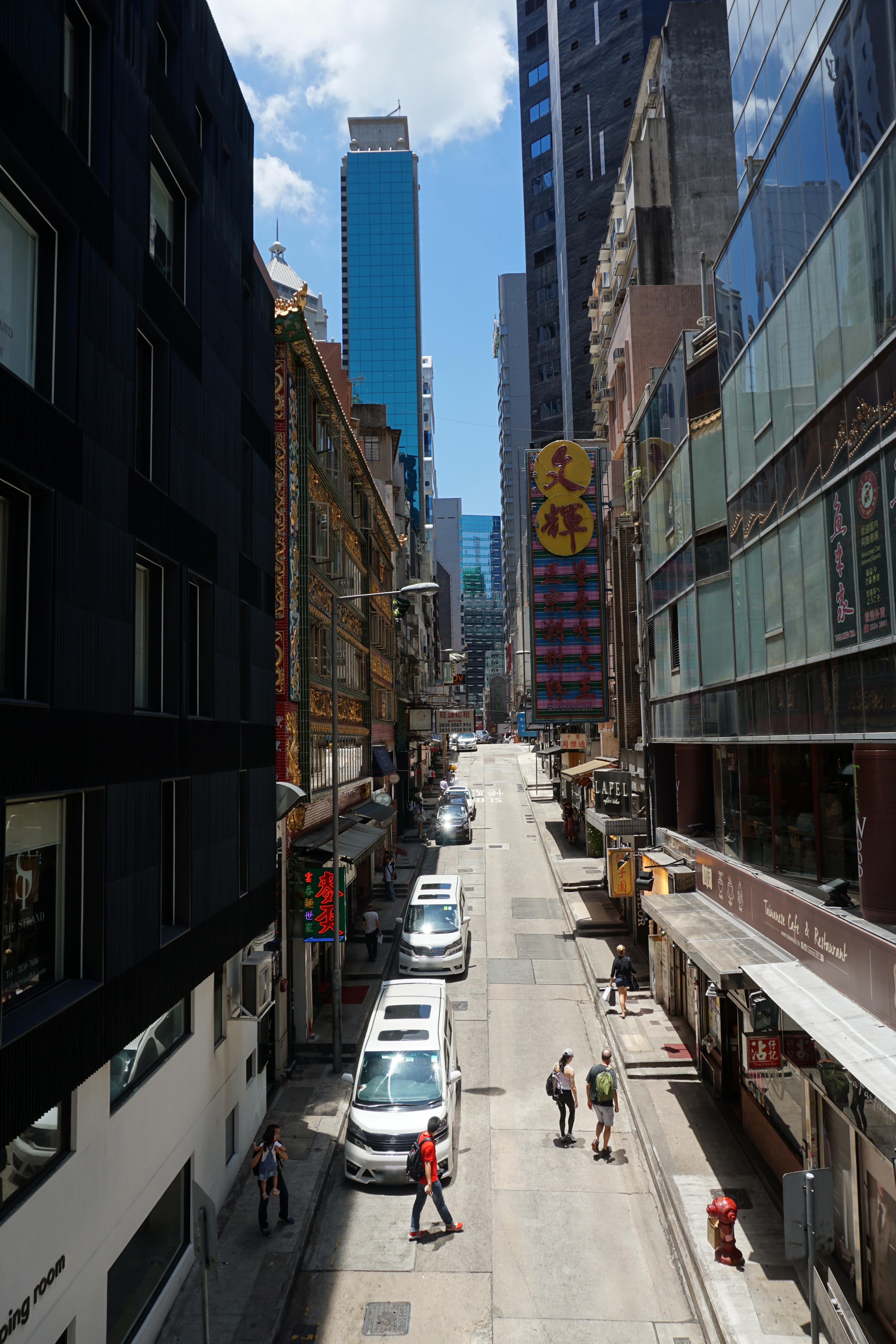 Wellington Street in Central, Hong Kong.